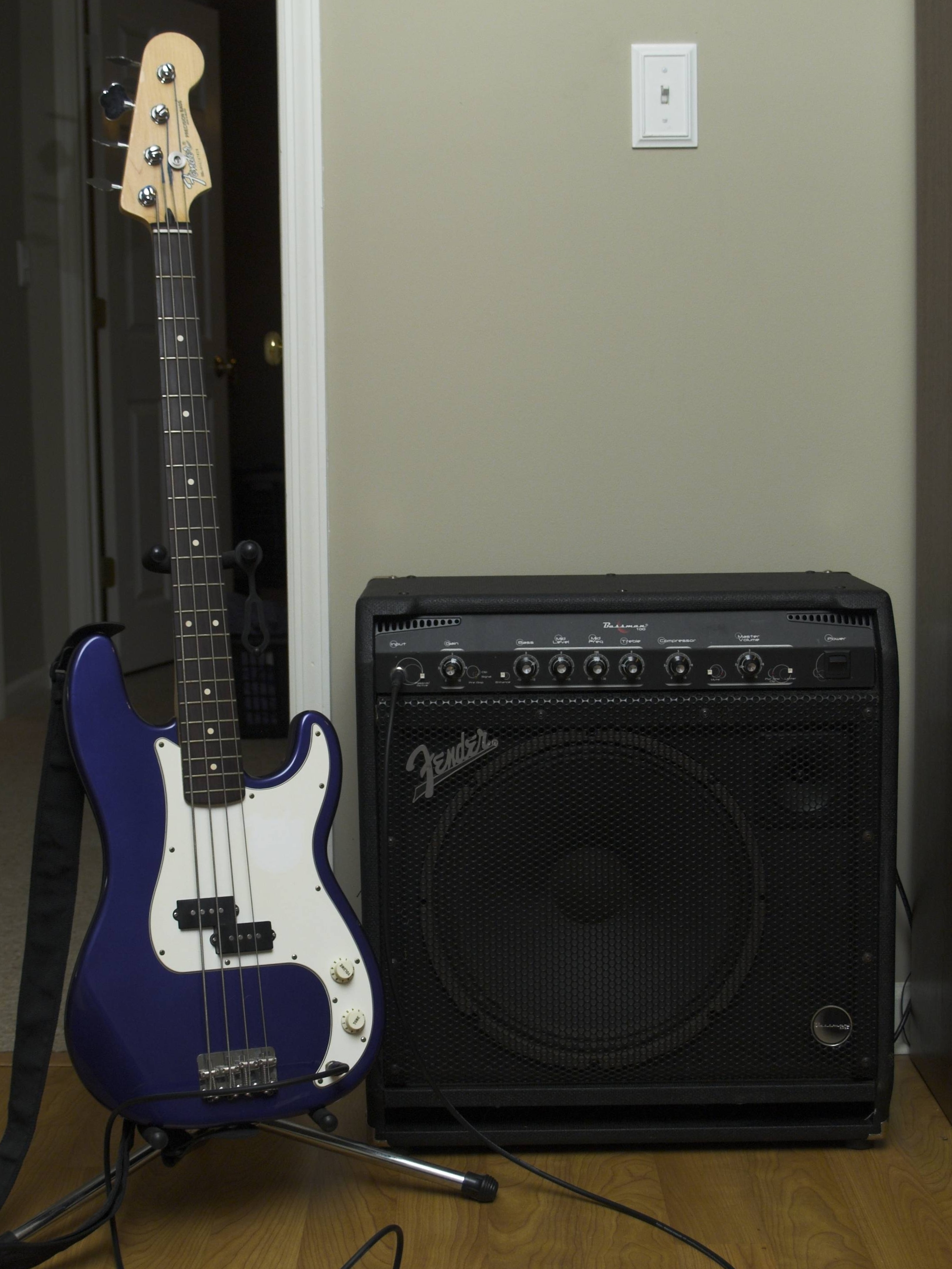 Fender Bassman 100 Fender Precision Bass (99 Mex) Fender Precision (99 Mex) and a Fender Bassman 100. My neighbors love me!